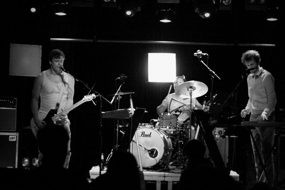 Gig at Waschhaus in Potsdam